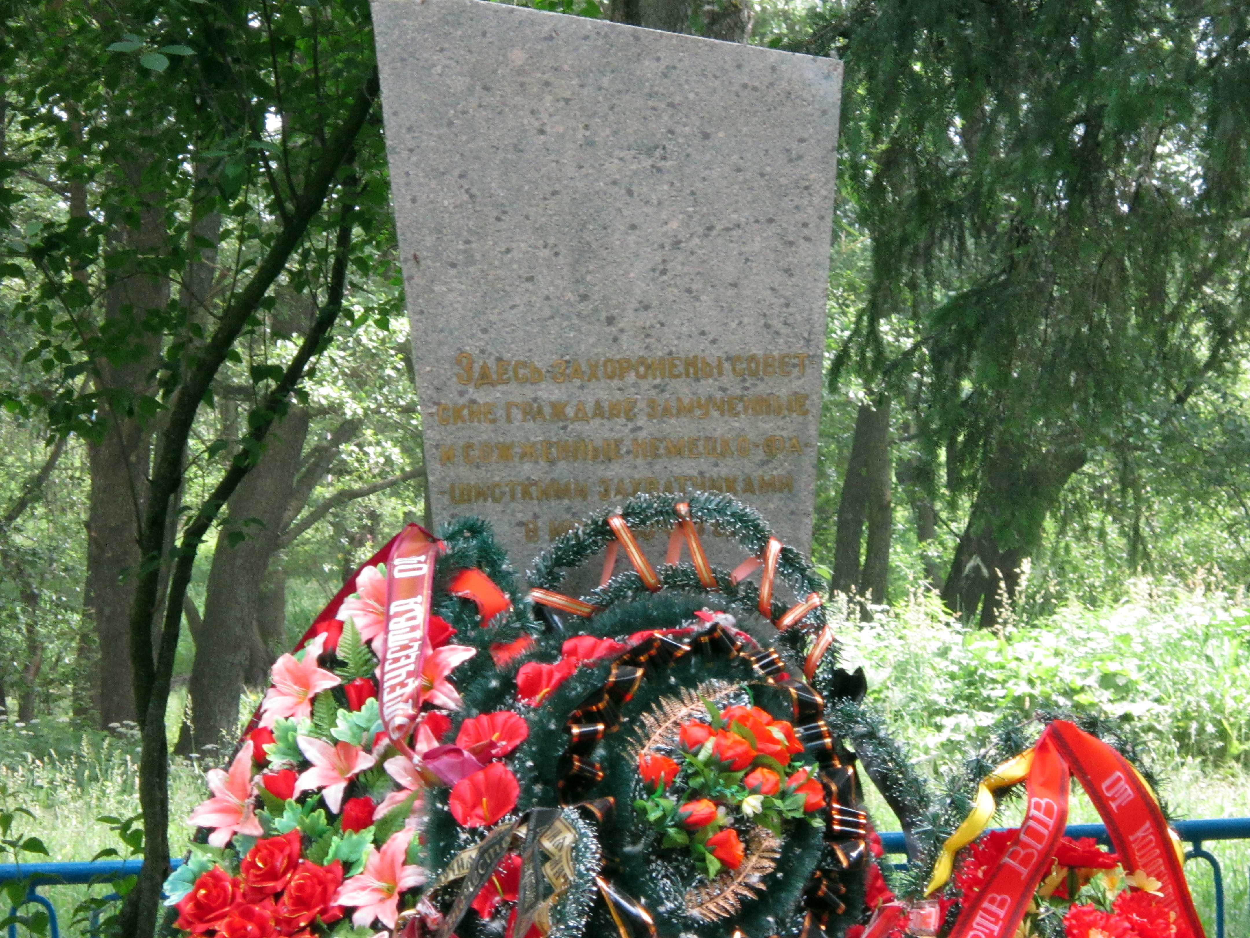 Memorial sign on a place of Maly Trastsianets extermination camp (Minsk, Belarus). Inscription: «Soviet citizens, tortured and burned by Nazi invaders in June 1944, are buried here»